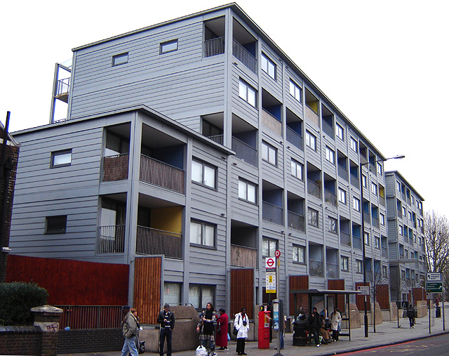 Raines Court, Northwold Road, Stoke Newington, Hackney, London. 6 December 2005. Photographer: Fin Fahey.